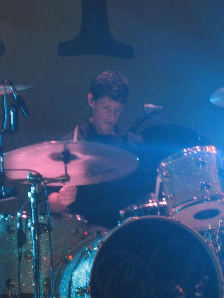 This photo was taken at an AFI concert at Columbus, Ohio, on October 4th, 2009.